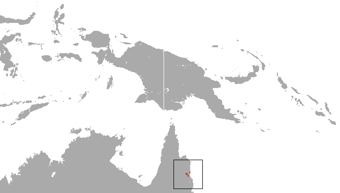 Cinereus Ringtail Possum (Pseudochirulus cinereus) range